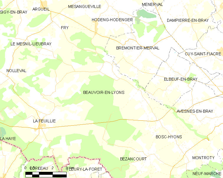 Map of French municipality Beauvoir-en-Lyons